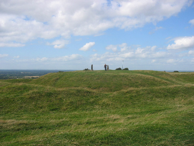 The Hill of Tara, County Meath